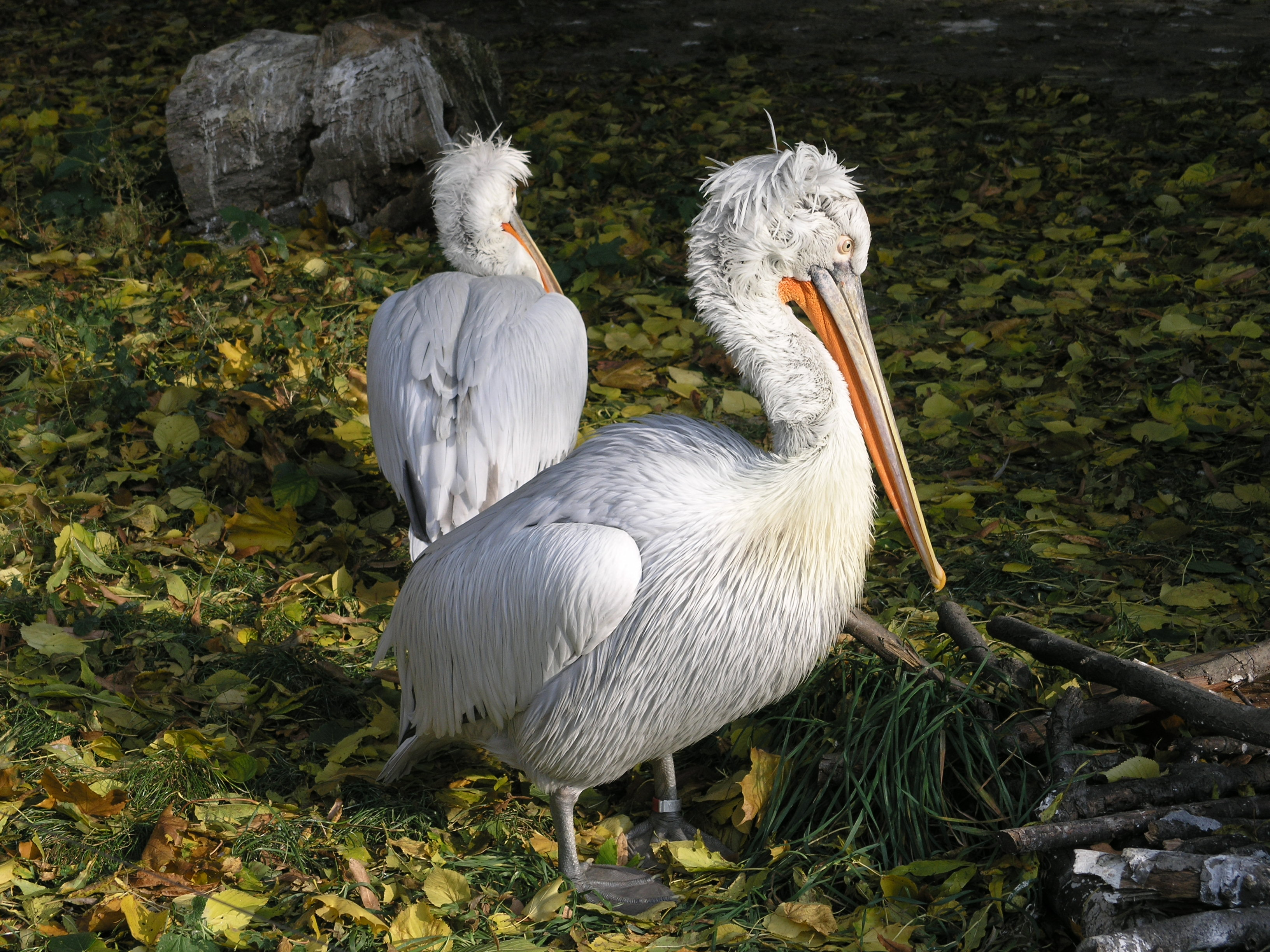 Pelecanus crispus